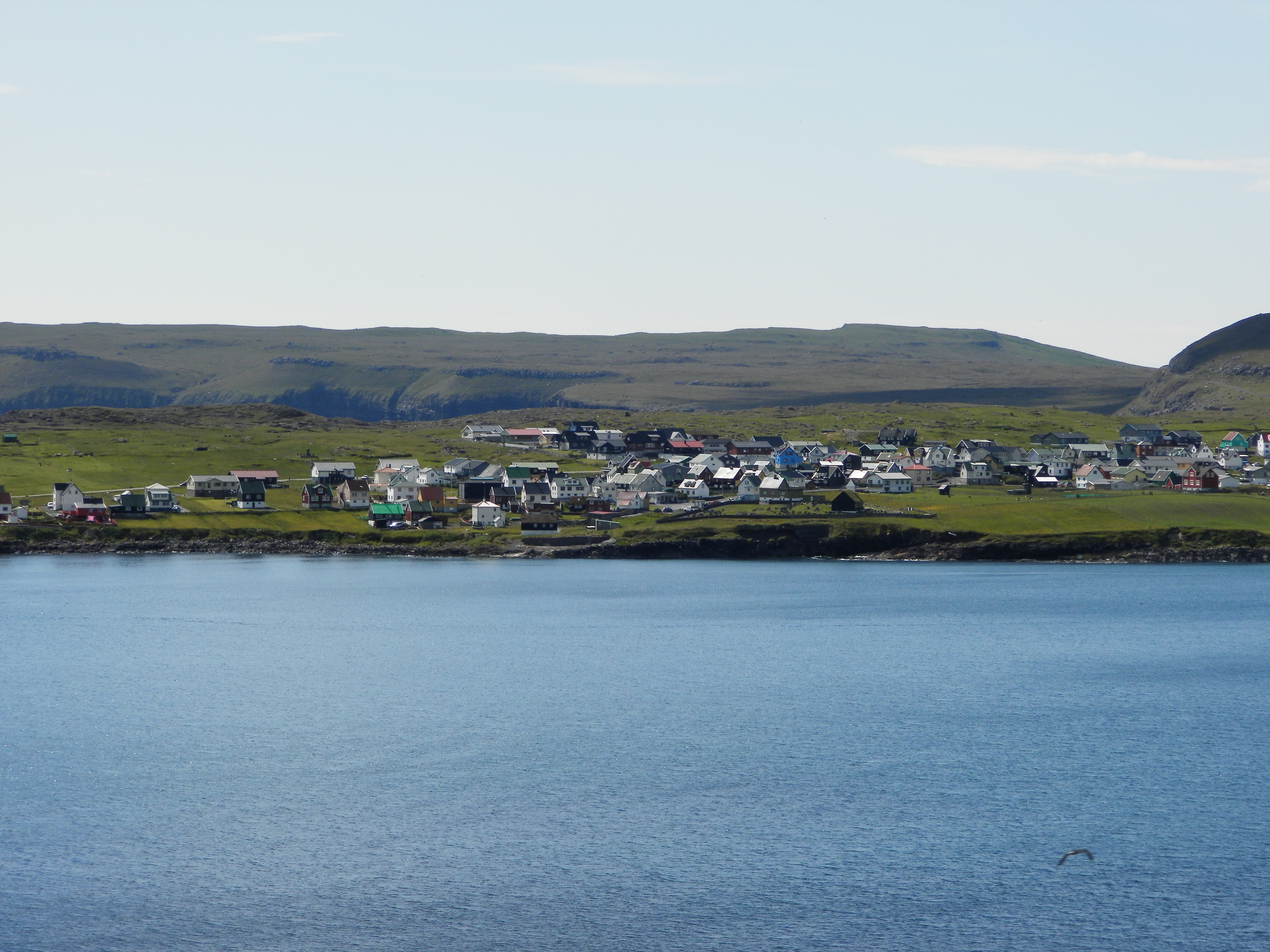 Sandur is one of the villages on Sandoy island in the Faroe Islands. This photo was taken on 13 July 2012.